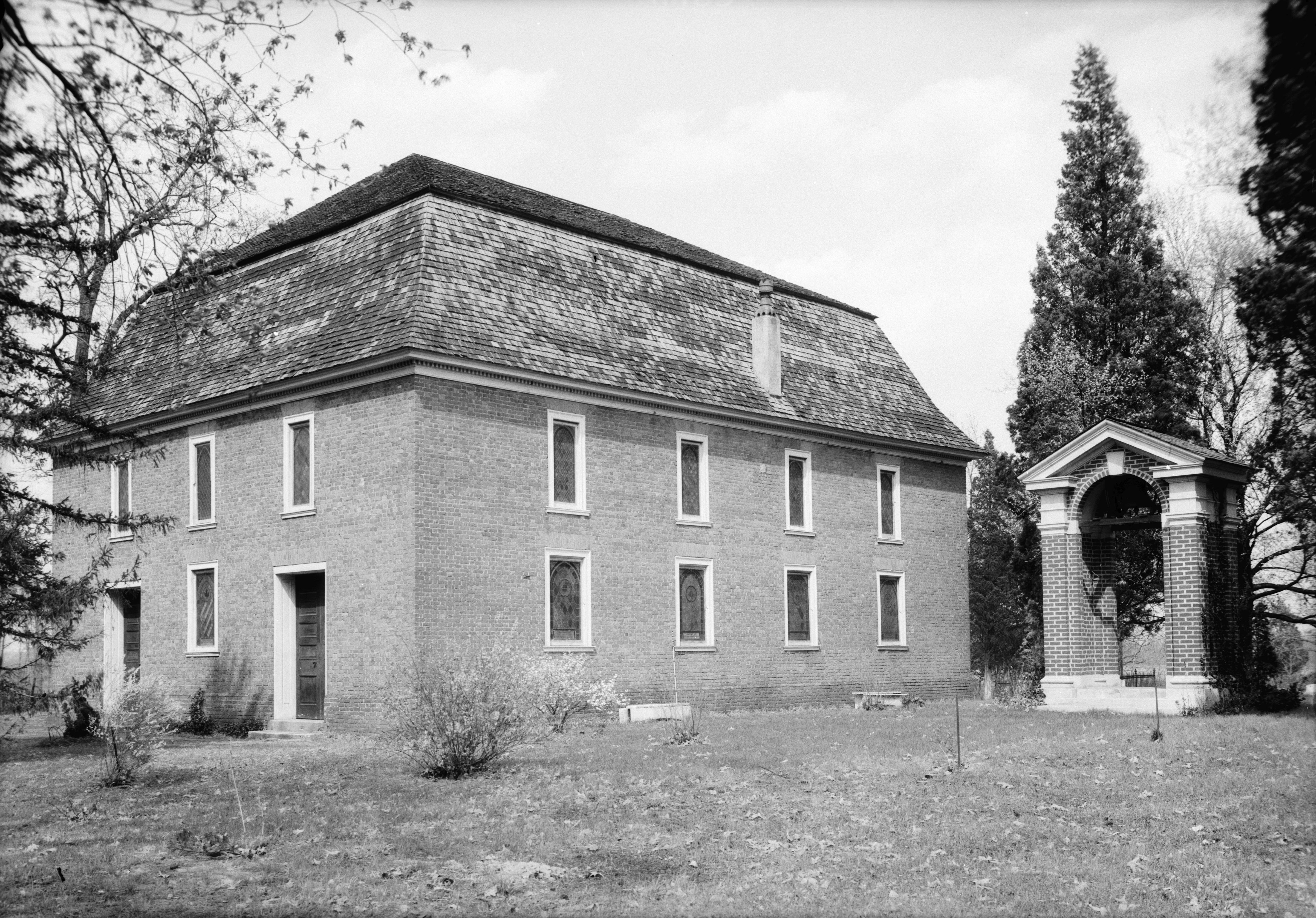 St. Barnabas' Episcopal Church in Leeland, Maryland, USA.